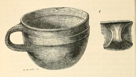 Amber Cup from Celtic Tumulus in Howe, unearthed in 1856, currently in Brighton Museum & Art Gallery.